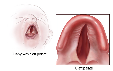 an image of a baby with cleft palate, article: Cleft Lip and Cleft Palate